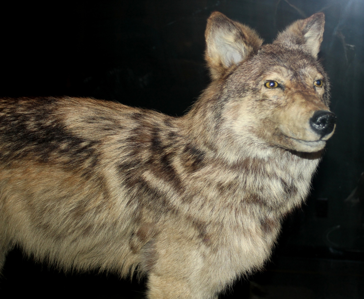 The Newfoundland wolf, now extinct. This is one of the remaining furs, at The Rooms.